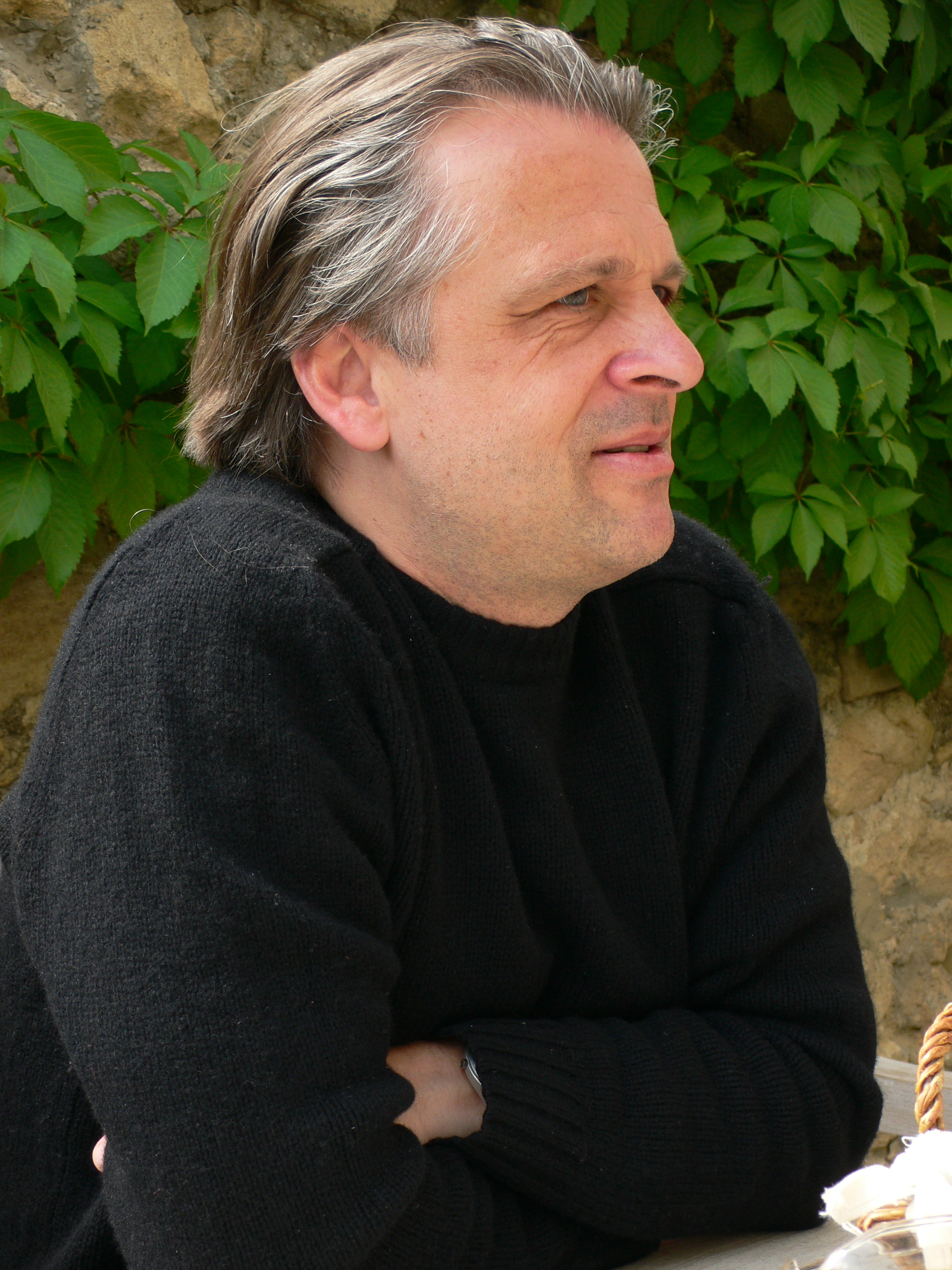 Norbert Wehr